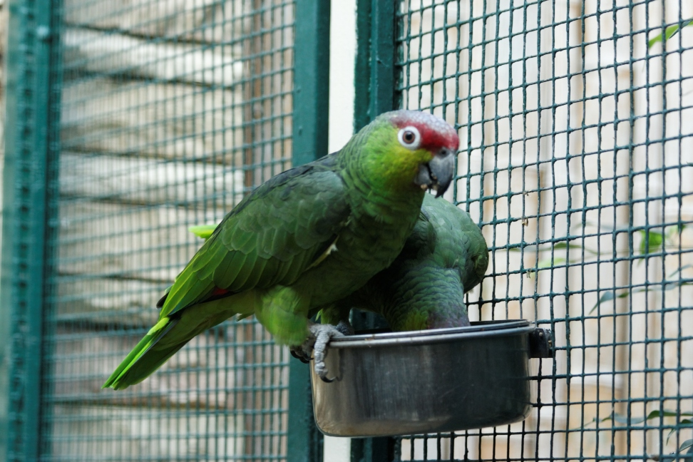 Red-lored Amazon in an aviary. This subspecies (Amazona autumnalis lilacina) is also known as the Lilacine Amazon and as the Ecuadorian Red-lored Amazon.